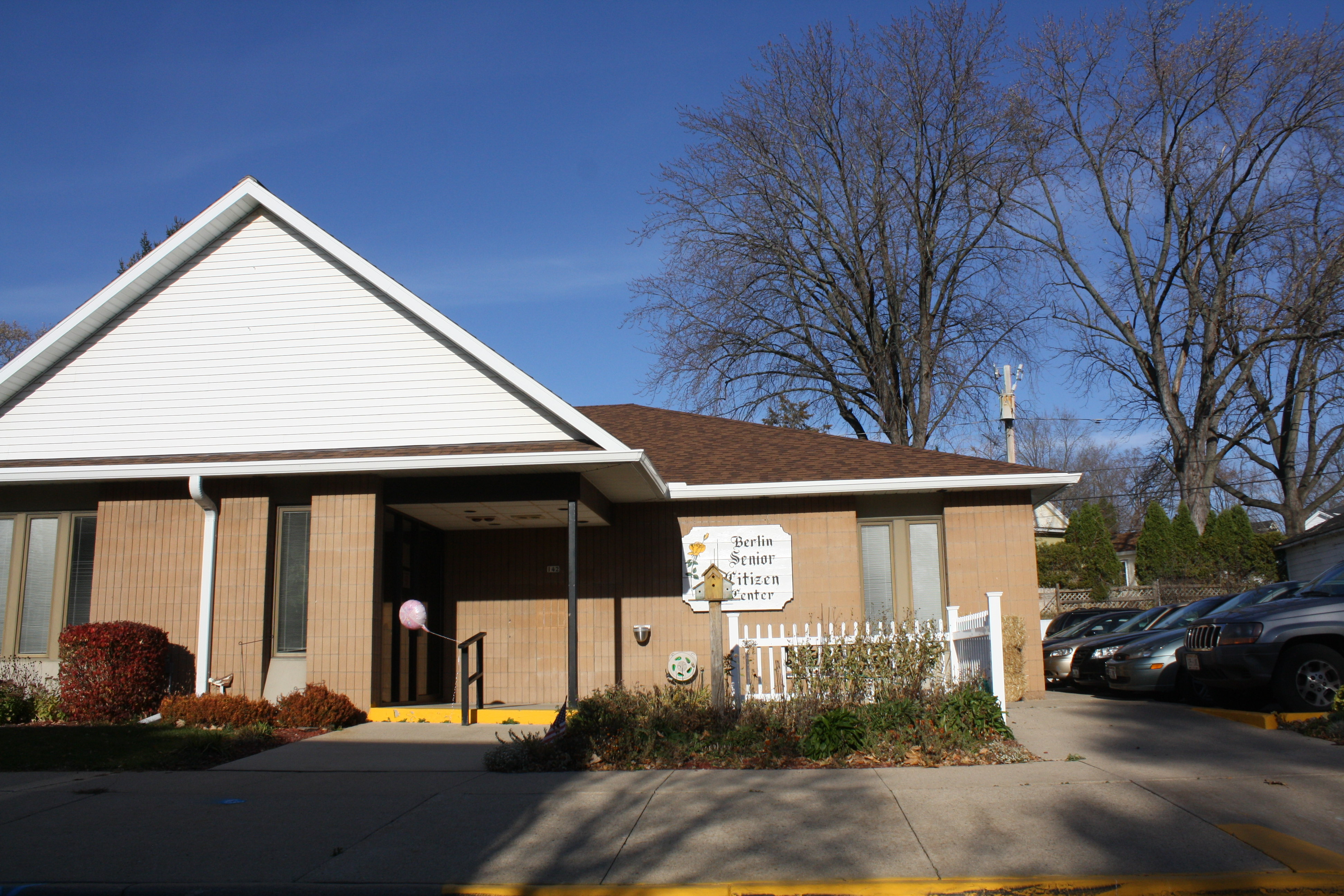 The Wisconsin Power and Light Berlin Power Plant in Berlin, Wisconsin, listed on the National Register of Historic Places. It is now senior housing.